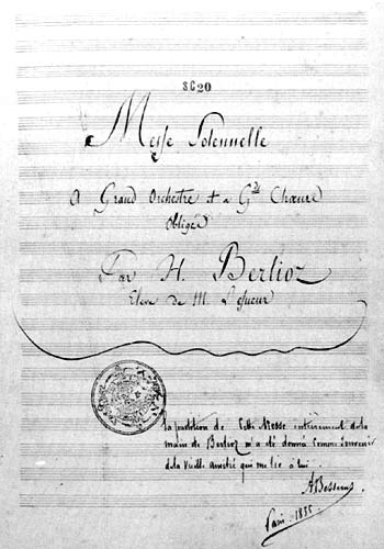 Title page of the autograph manuscript of Hector Berlioz's Messe solennelle